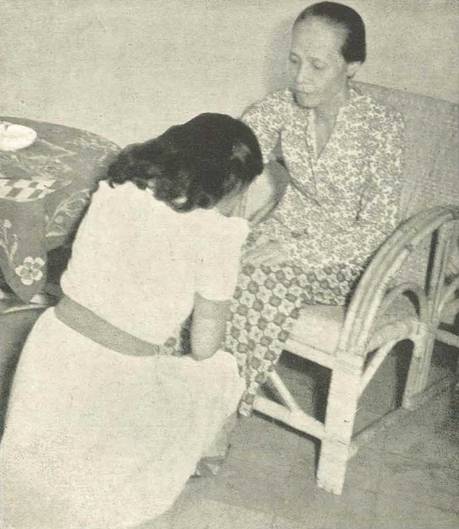 Young woman paying respects to her mother